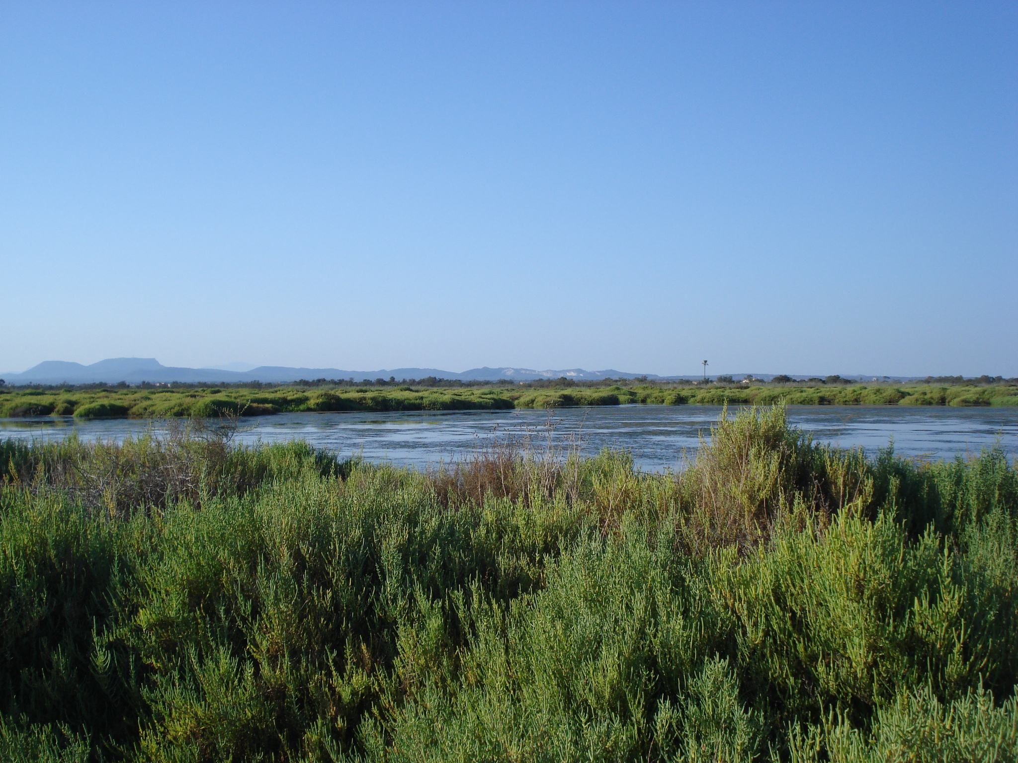 Es Salobrar de Campos wetland, Migjorn of Mallorca